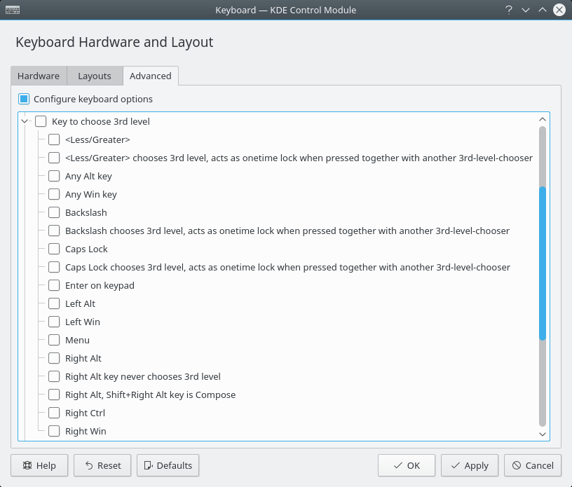 Configuring a key to choose 3rd level through KDE Plasma 5 System Settings